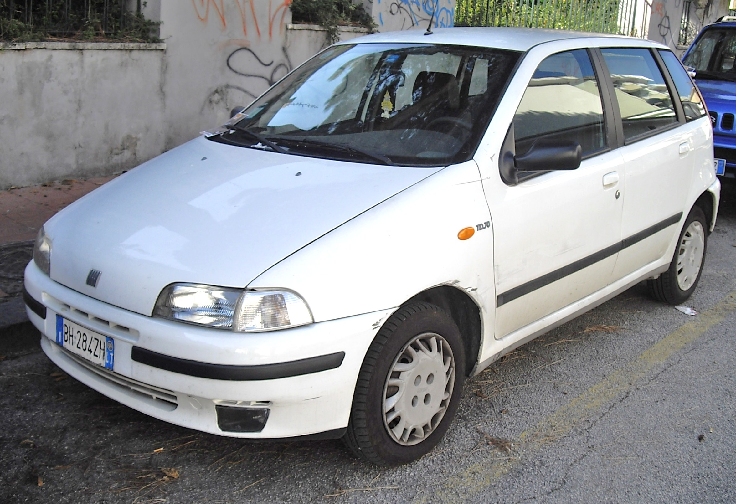 Fiat Punto 176